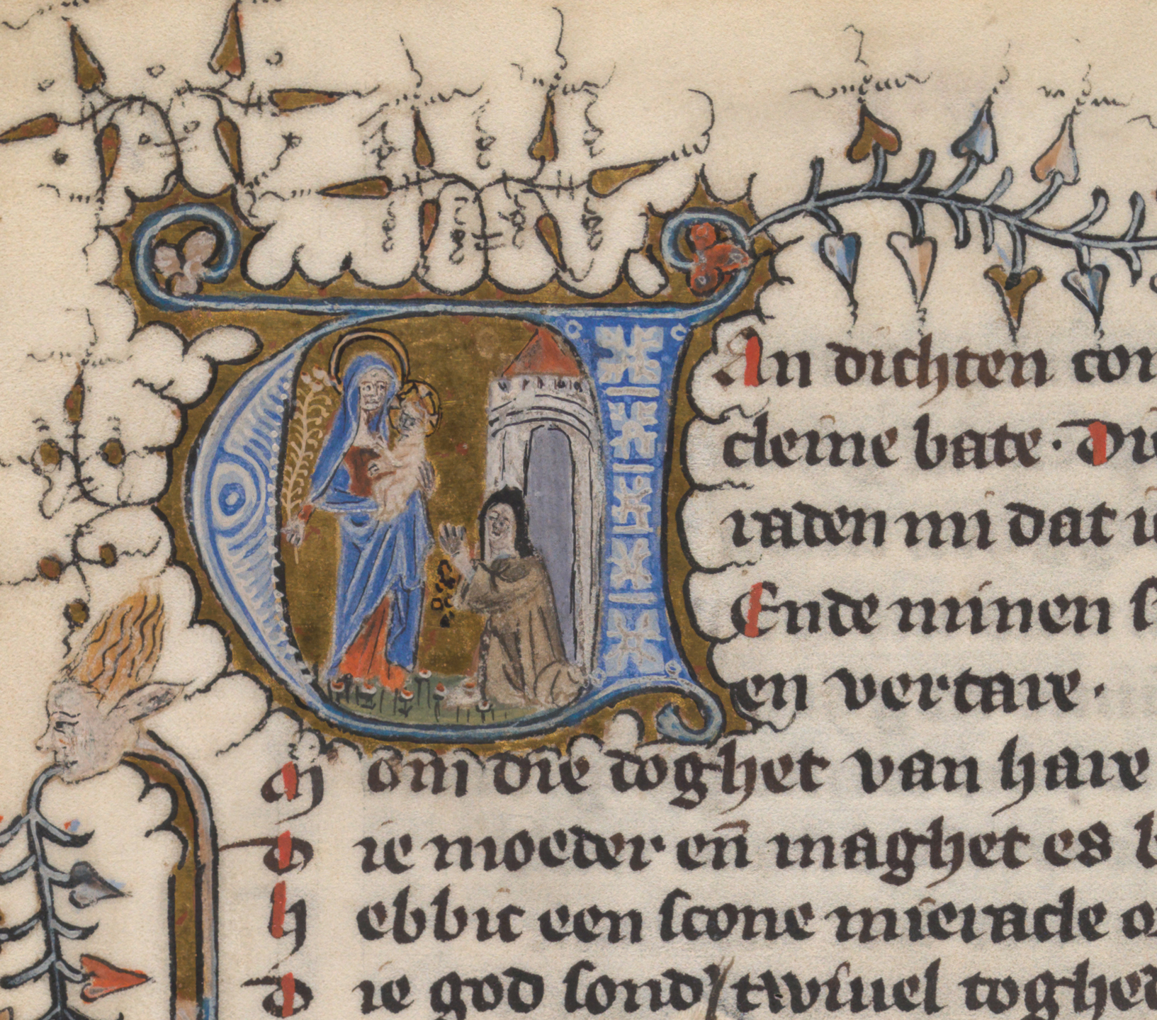 Medieval illumination showing Beatrijs kneeling before Mary holding the Christ-child. This historiated initial is part of the Beatrijs manuscript. It is contained in :c:File:|folium 047v of the manuscript KB 76 E 5. Associated information from Iconclass Mary standing (or half-length), the christ-child sitting on her arm (christ-child to mary's left) (11F4122) Legends and miracles ~ mary (11F83) Nun(s) (11P31522) Roman script; scripts based on the roman alphabet (u) (49L12(U)) Historiated initial (49L171) Historical person (beatrijs) - fictitious scene ~ historical person (beatrijs) (61B2(BEATRIJS)22)